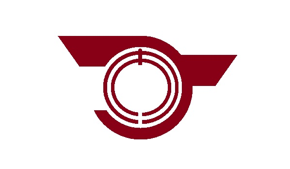 Flag of Shimoichi Nara